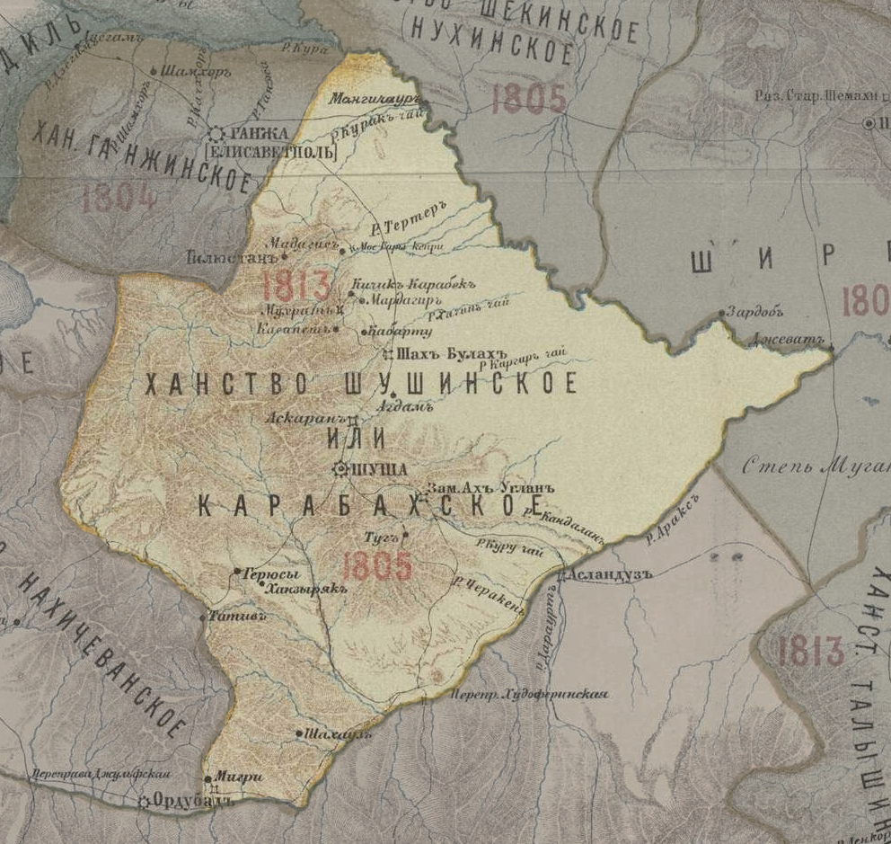 Khanate of Karabakh in the Map of Caucasus with the borders 1801-1813.png